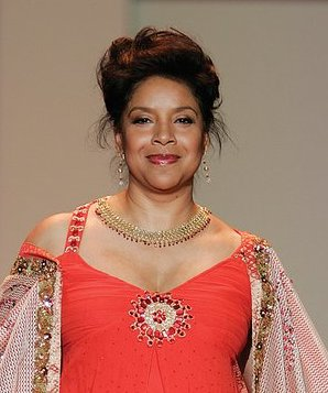 Actress Phylicia Rashad in the 2007 Red Dress Collection for The Heart Truth Foundation